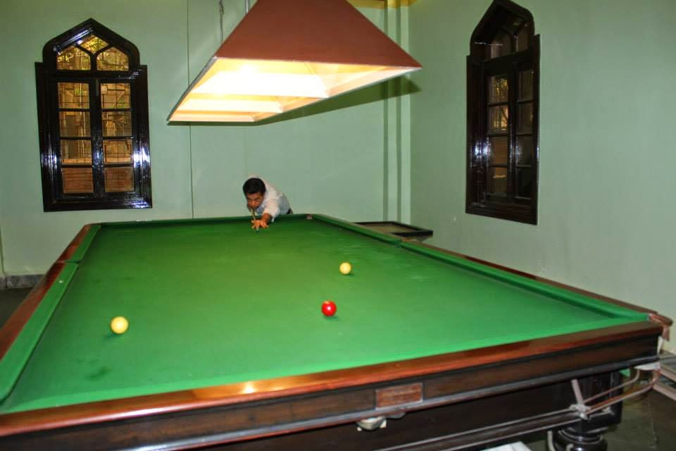 This was donated to MA